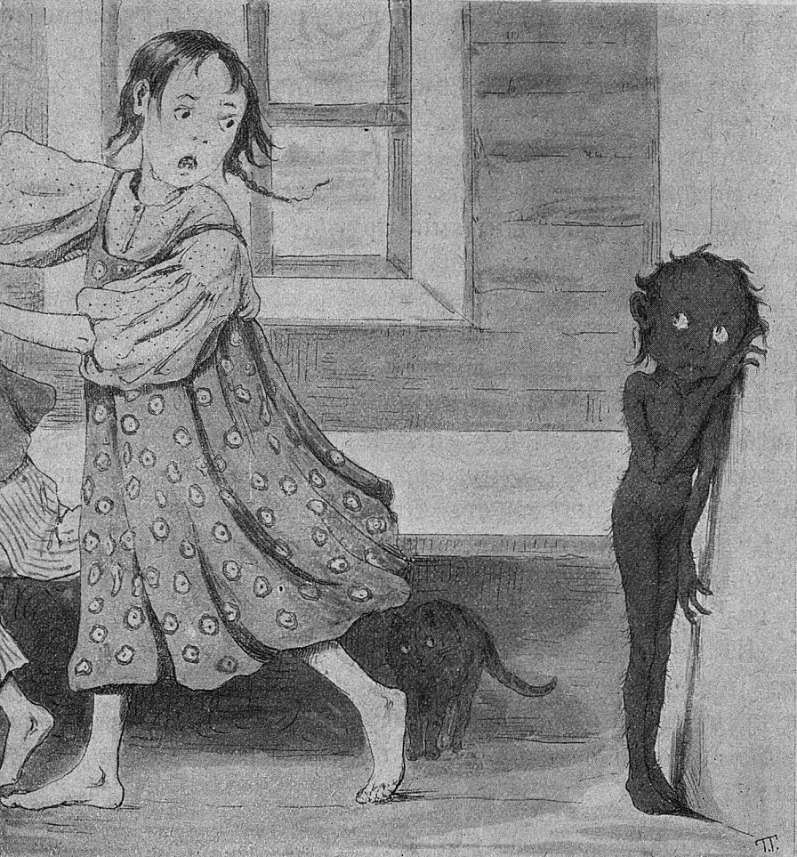 Kikimora by Tatiana Hippius